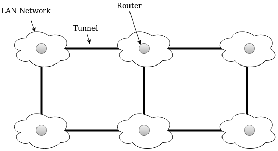 Simple Multicast Backbone network